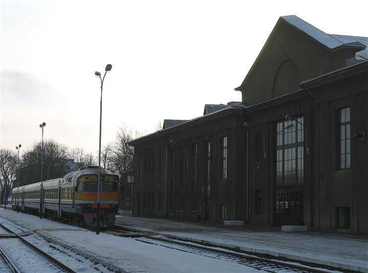 Railway station of Daugavpils city, in the southwestern Latvia.